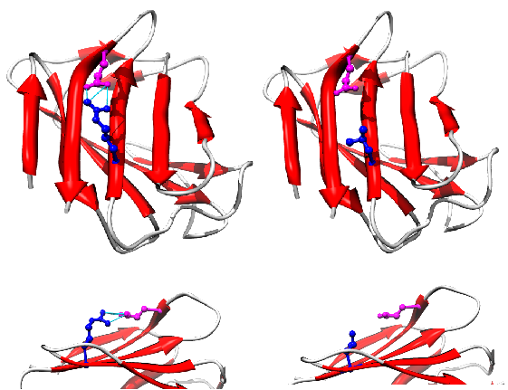 Wild type (left) and mutated (right) form of lamin A (pdb id: 1IFR). Normally, Arginine 527 (blue) forms salt bridge with glutamate 527 (magenta), but R527L substitution results in braking this interaction (leucine is to short to reach glutamate). Draft version of figure from PMID 22549407